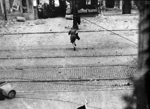 Warsaw Uprising: Courier crossing Nowy Świat street under fire.